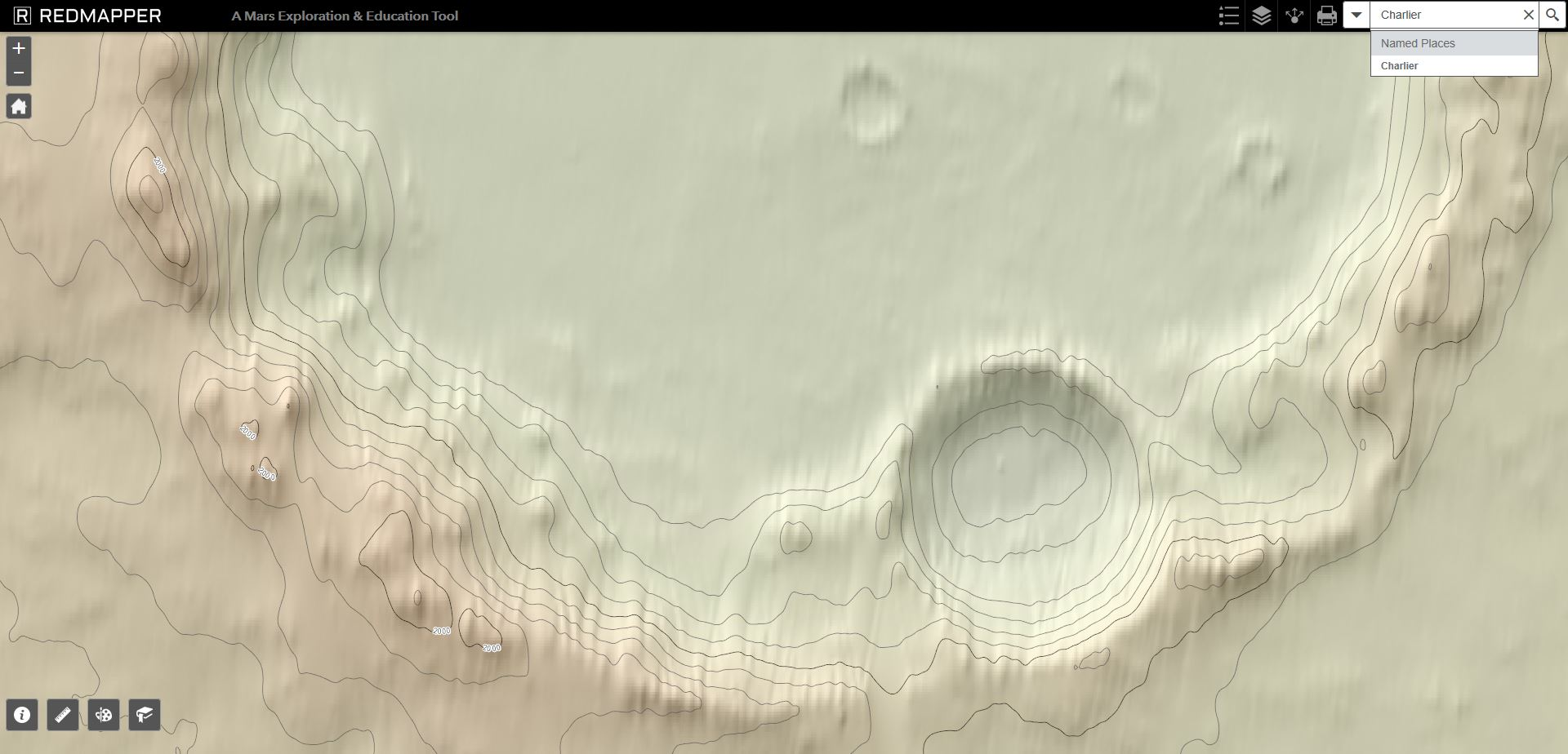 This topographic map was created using Mars Orbiter Laser Altimeter (MOLA) technology on the Mars Global Surveyor spacecraft. This image is a screenshot of RedMapper's website and shows the sout rim of Charlier crater.